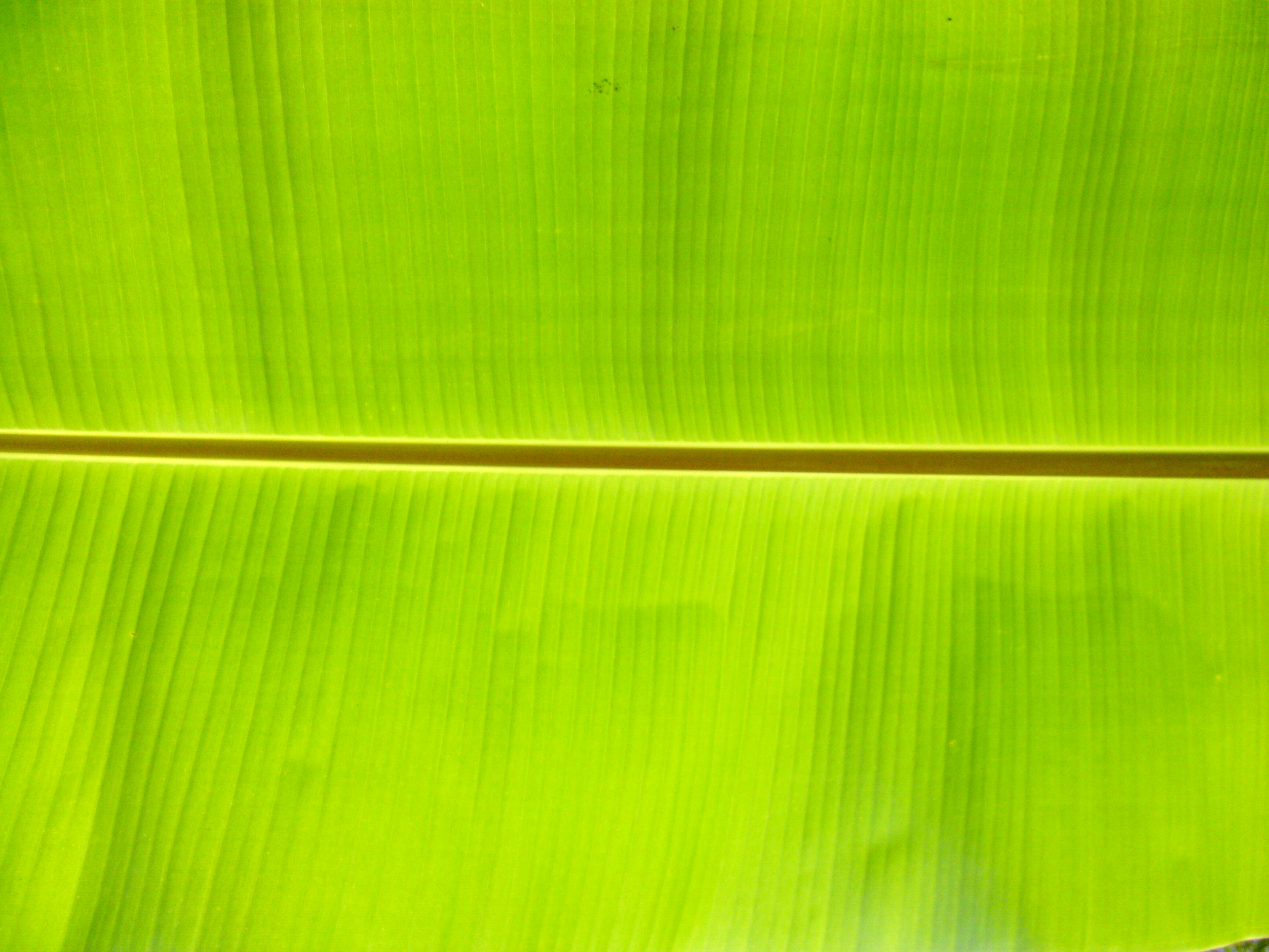 close up image of banana leaf